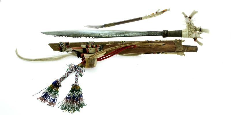 Sword with hilt of bone, sheath and small knife